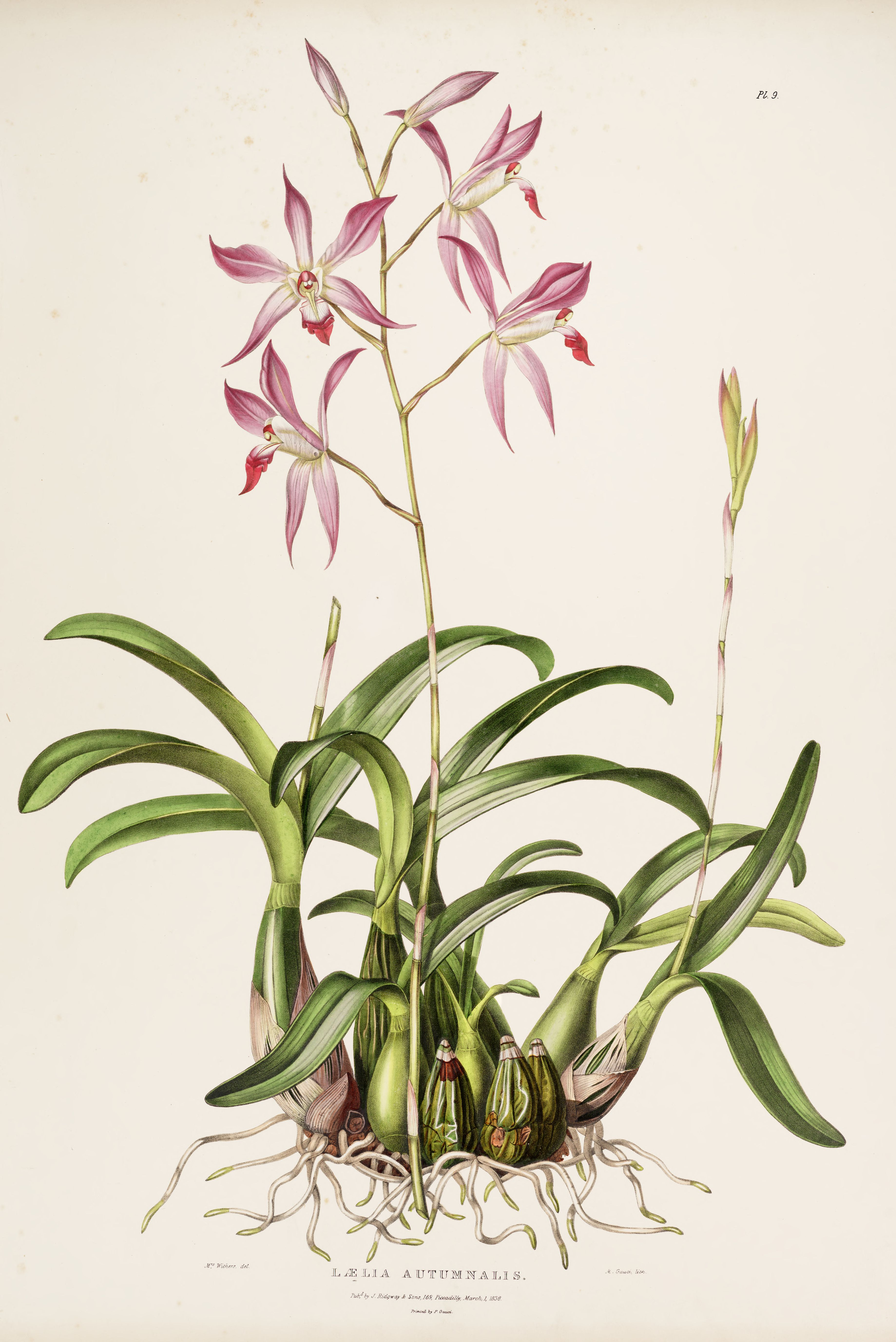 Illustration of Laelia autumnalis